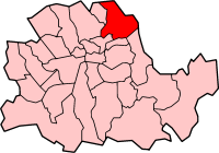 Map of the Metropolitan borough of Hackney, former County of London.